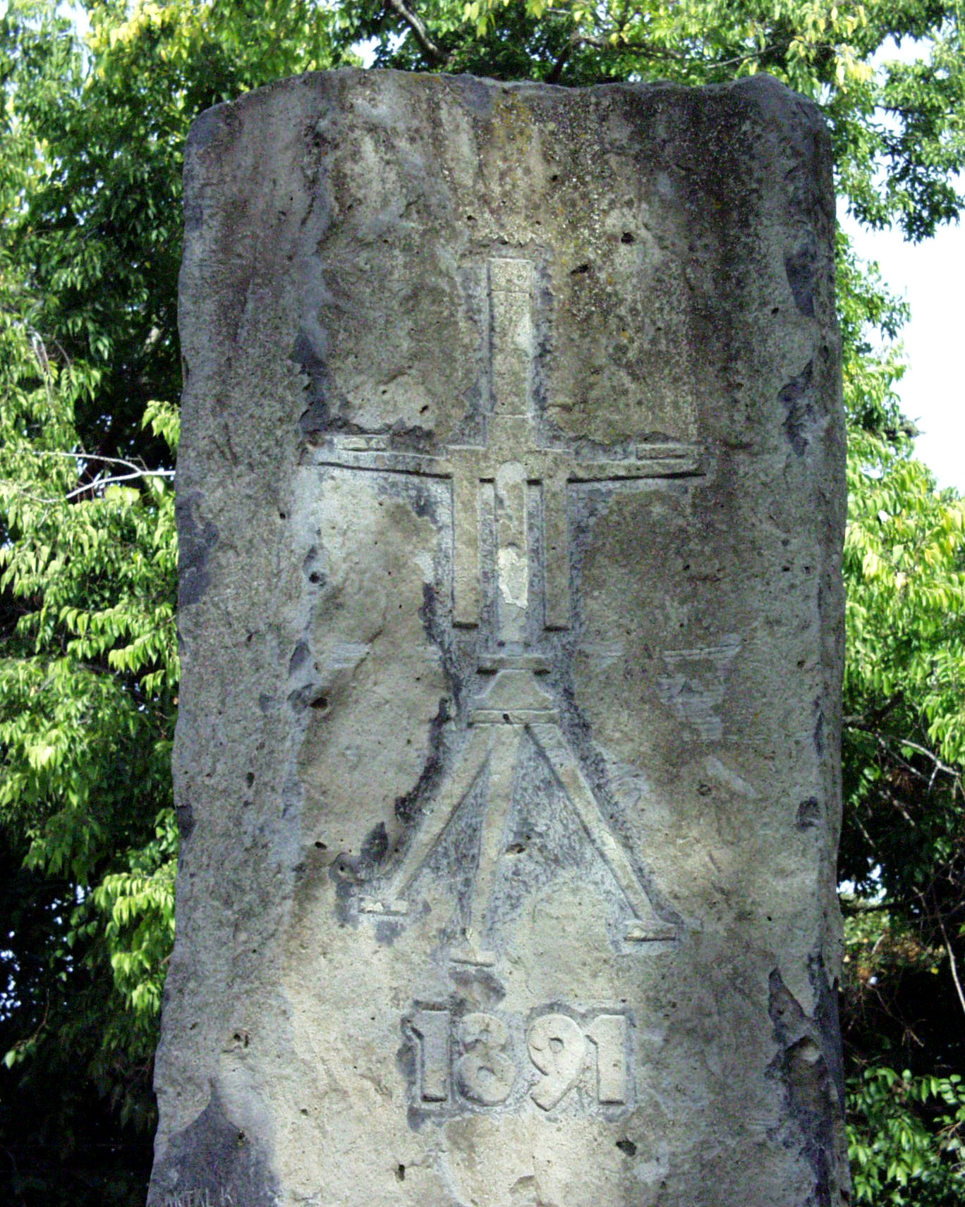 Memorial of the measurements Eötvös Loránd, 1891. (Detail. Built in 1971.)